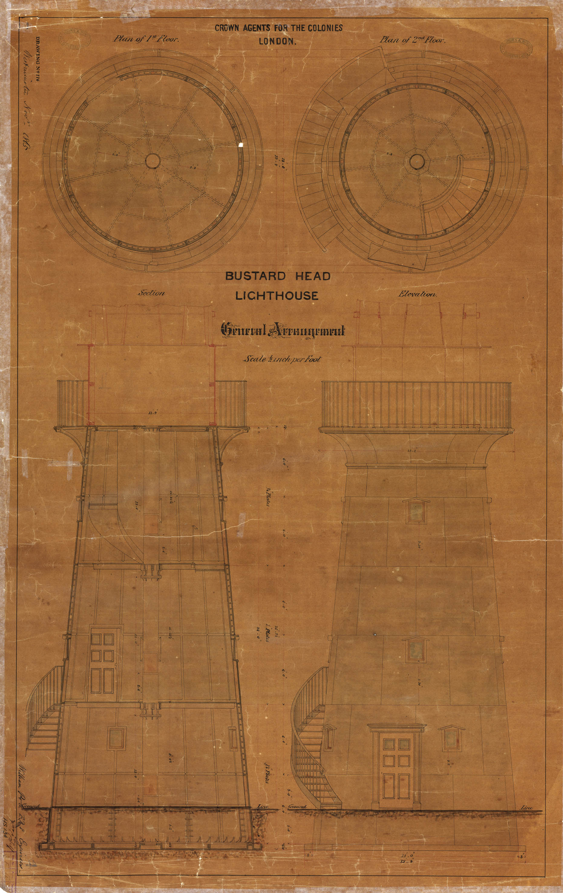 Bustard Head Light, details of lighthouse general arrangement, 1865